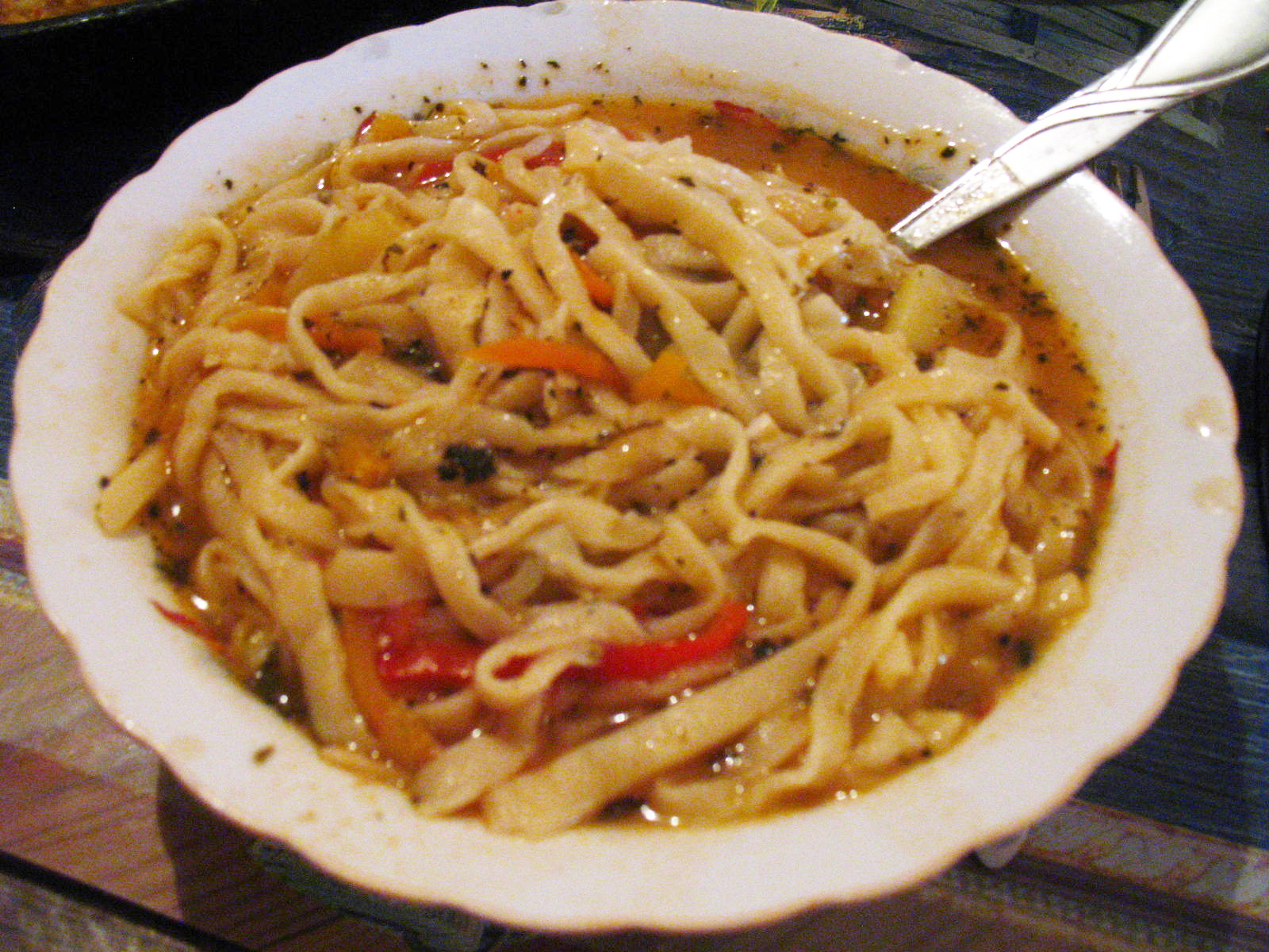 A bowl of kesme Кыргызча: Бир гердем кесме